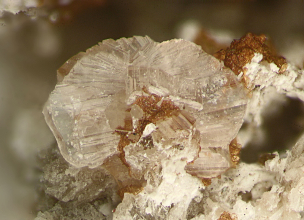 Locality: Poudrette quarry (Demix quarry; Uni-Mix quarry; Desourdy quarry; Carrière Mont Saint-Hilaire), Mont Saint-Hilaire, La Vallée-du-Richelieu RCM, Montérégie, Québec, Canada View window 3.2 x 2.3 mm. Found Nov 1999. MOB coll. Nice pale pink typically twinned xls. Note: Like many REE bearing minerals, the apparent color of horváthite depends on the light source – in this case tungsten. But these xls are pinker than most – at least in my experience.